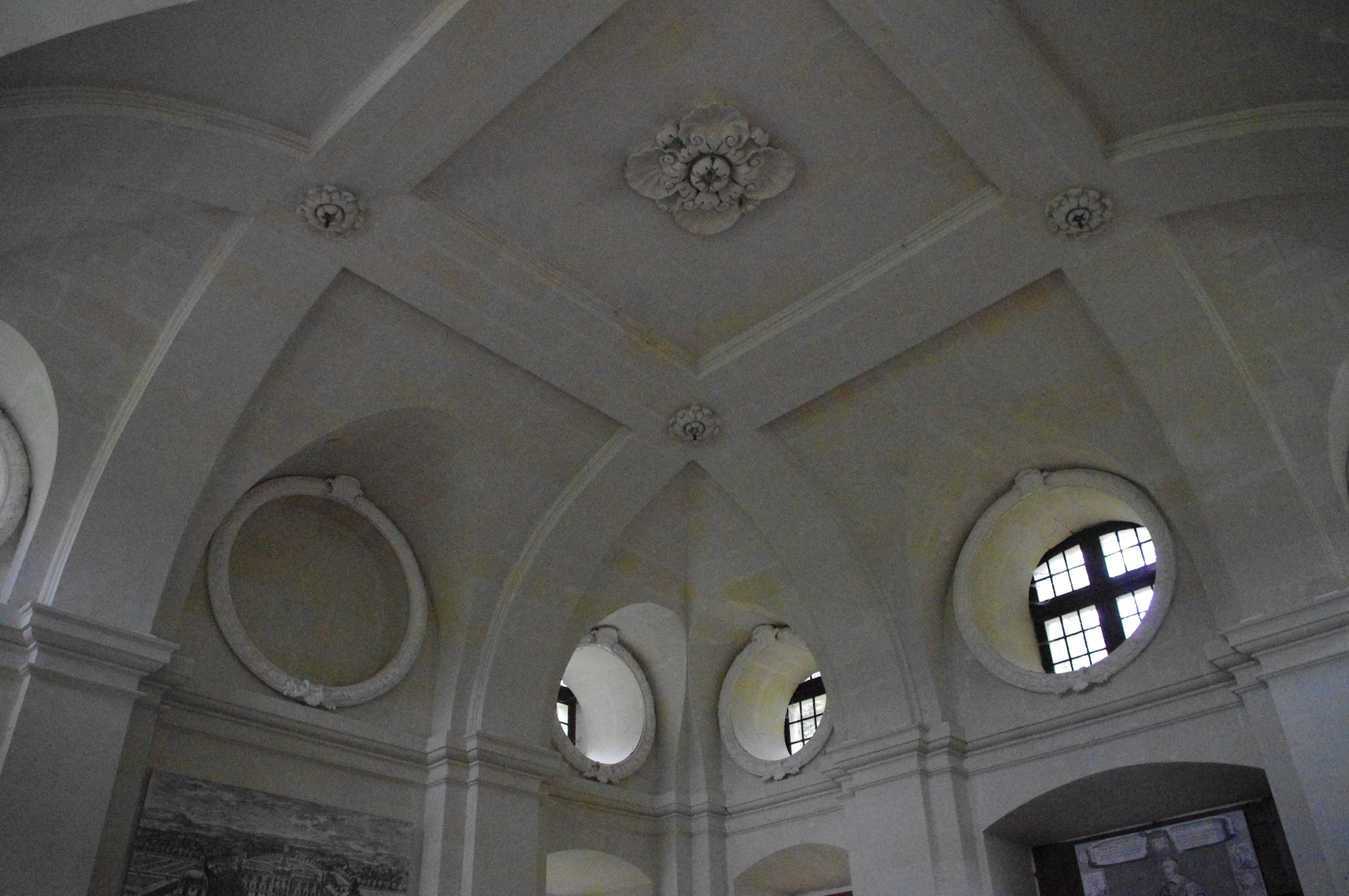 Vaulted ceiling of the former riding-hall, only remaining element from Cardinal de Richelieu's castle in the city of the same name, France.